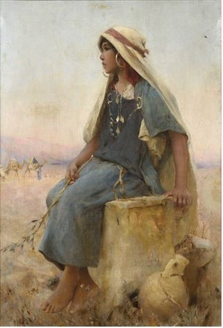 A Young Tunisian, Sitting